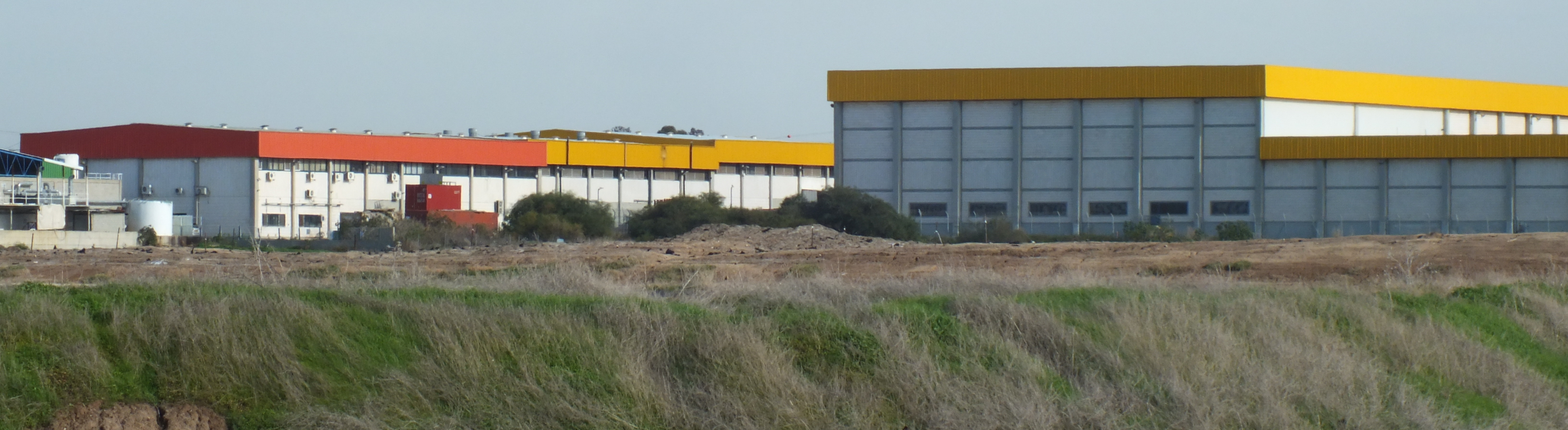 Be'er Tuvia Industrial Area seen across Highway 3 from the town of Kiryat Mal'achi, with factories and suburb-type commerce all paying their taxes to the rural regional council – while the enclave-town itself anomalously sees little benefit in this neighbouring modern economic zone and relies on small-scale services, as well as some low-tec industry, all being restrained from stretching out from within the town's small area as the regional municipality's moshavim that encircle it enjoy privileged land and economy over it.